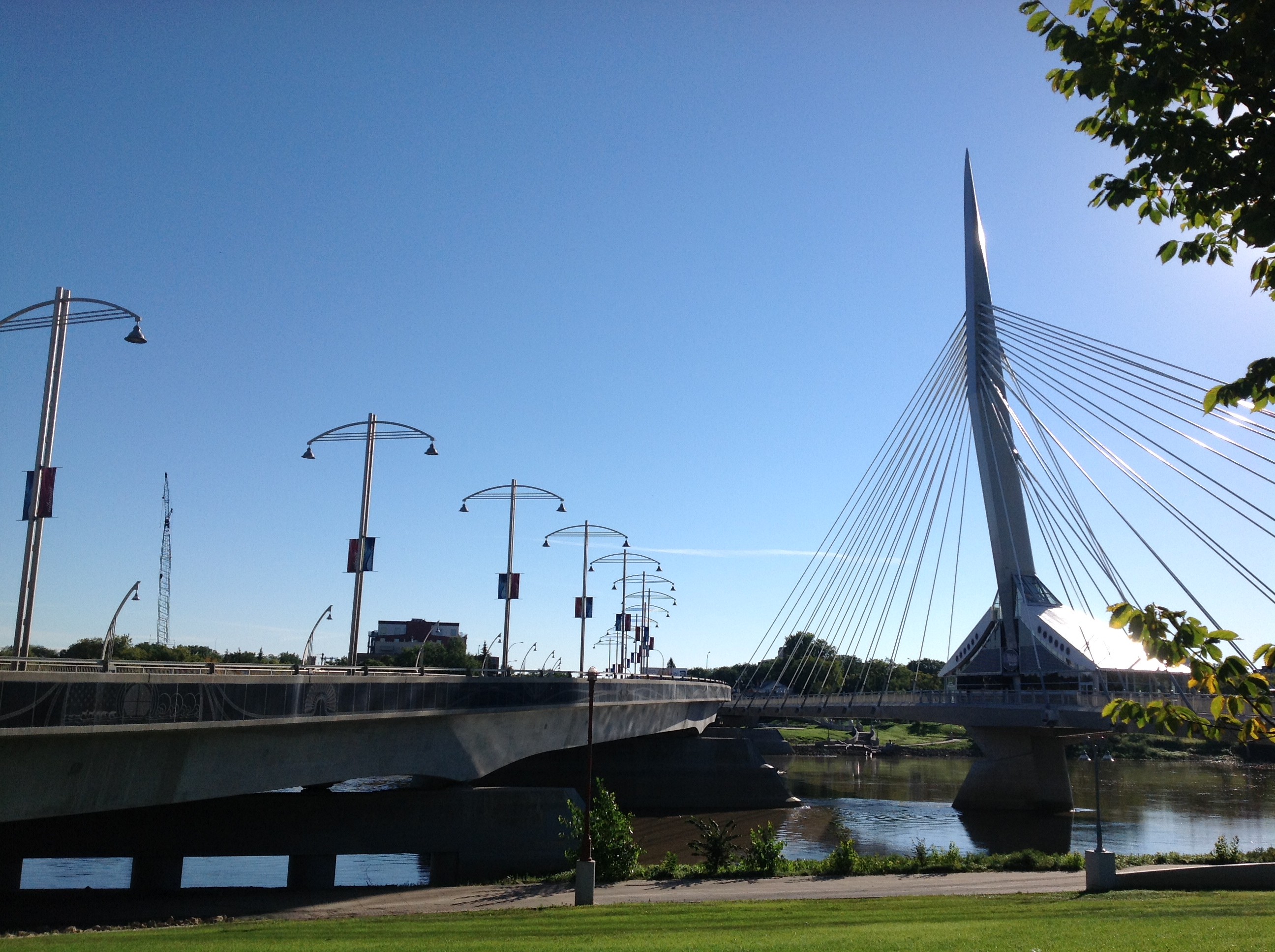 Esplanade Riel, Winnipeg